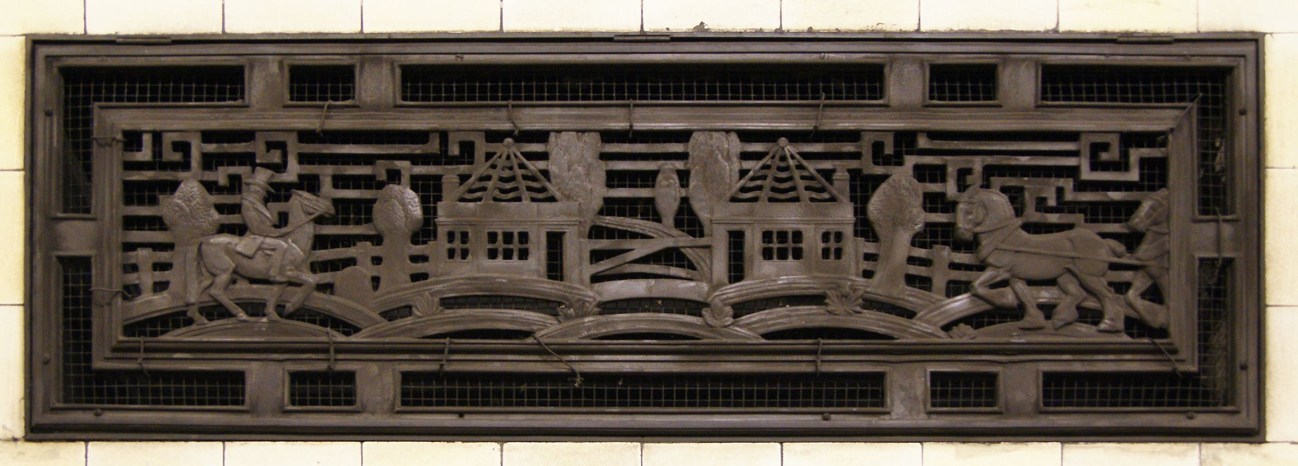 Art Deco ventilation grille at Turnpike Lane Underground station designed by Harold Stabler, depicting the local area theme